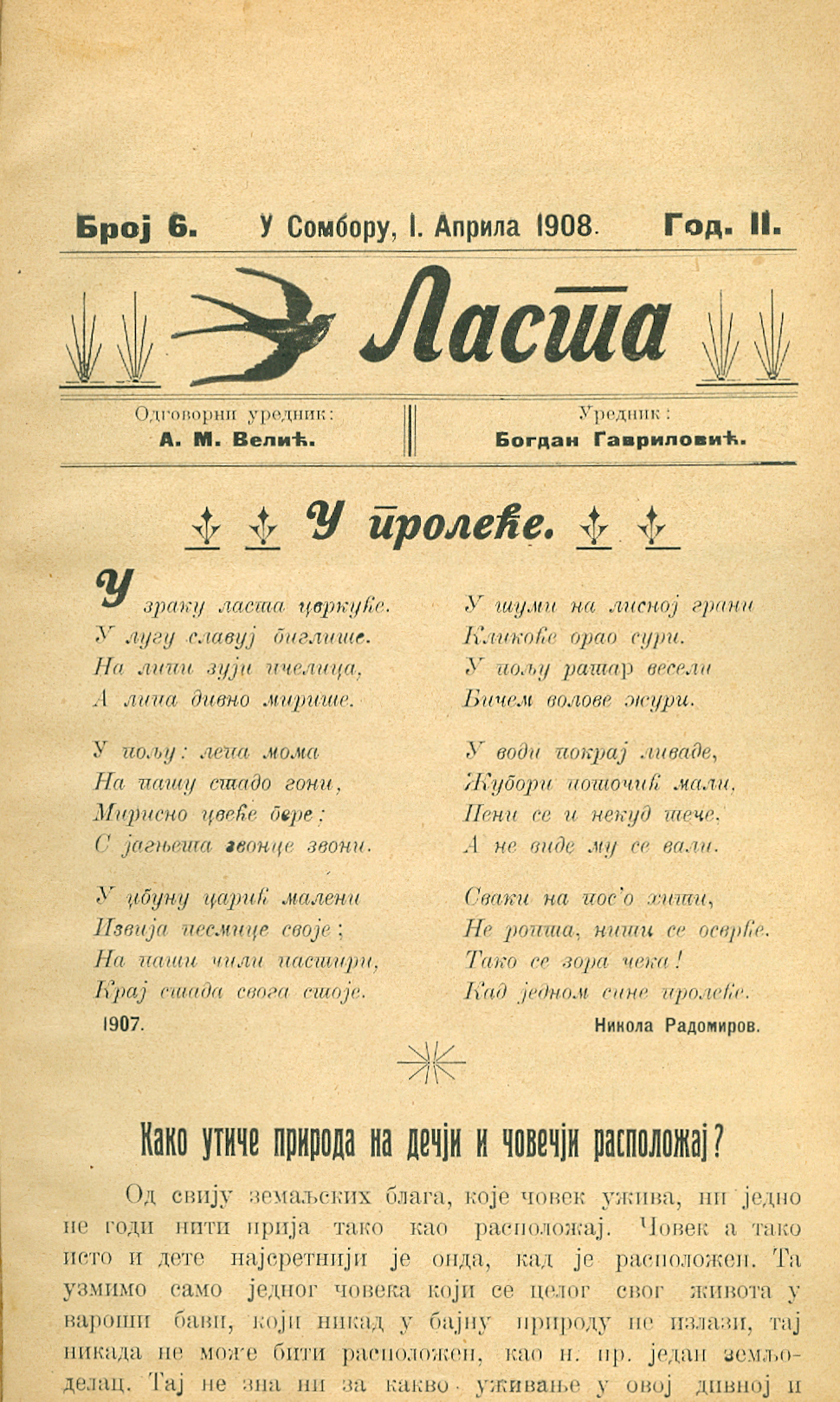 Lasta, magazine for children, number 6, 1908, Sombor